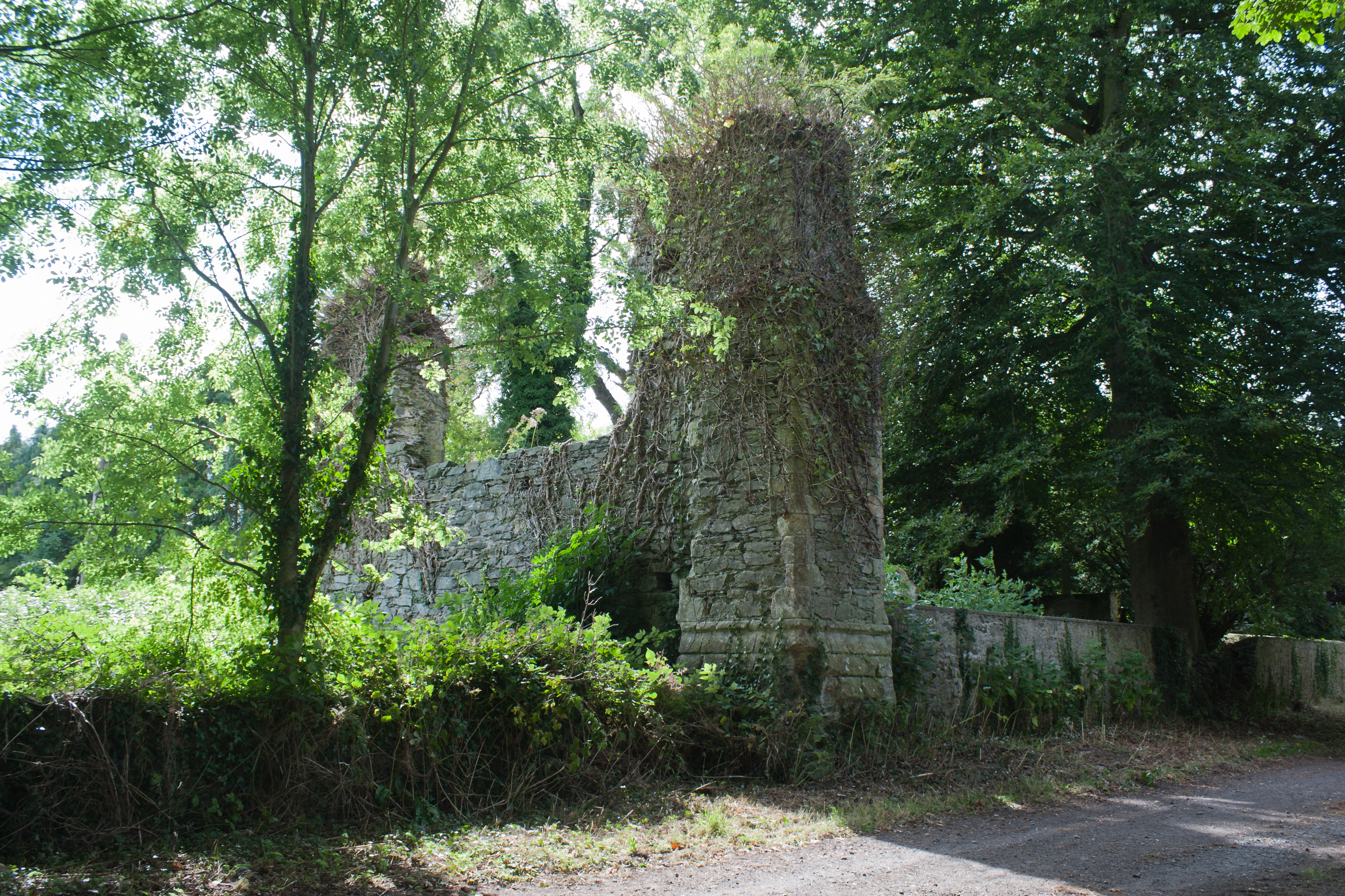 East window of Greatconnell Priory.